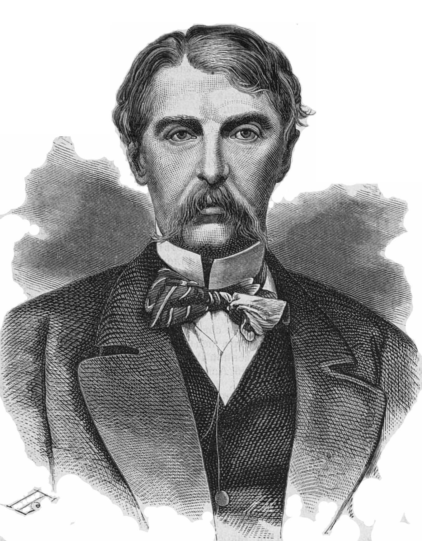 Shuvalov, Graf Andrey Pavlovich